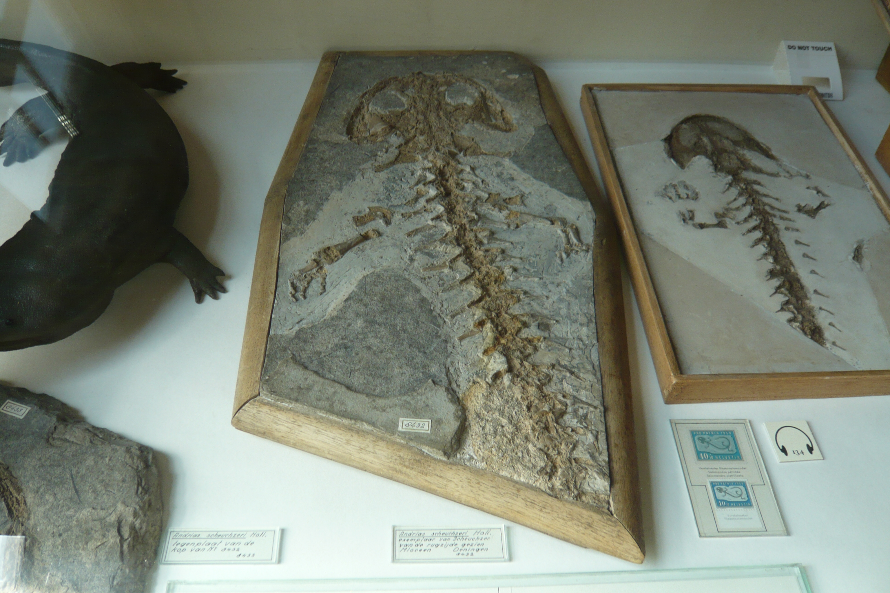 Fossil room II, Teylers Museum, The Netherlands Andrias Scheuchzeri Oeningen